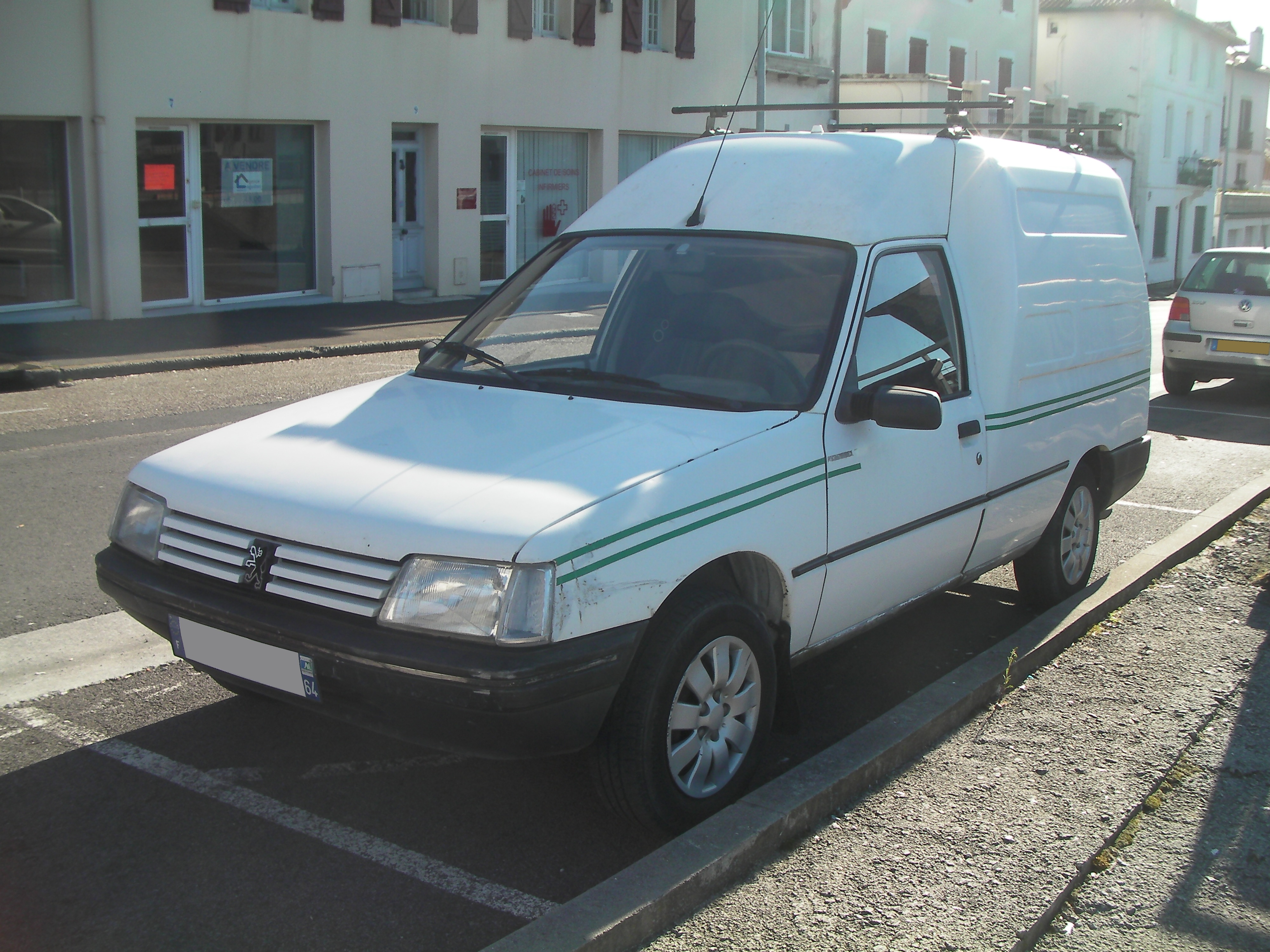 A Peugeot 205F, parked on the streets of Hendaye, France. April 2015.